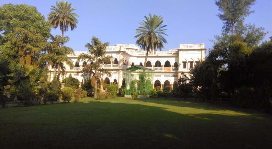 Habib Manzil